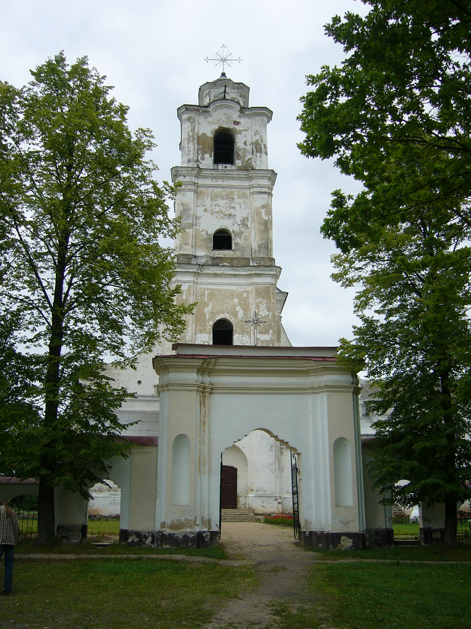 Church of the Holy Trinity in Druja